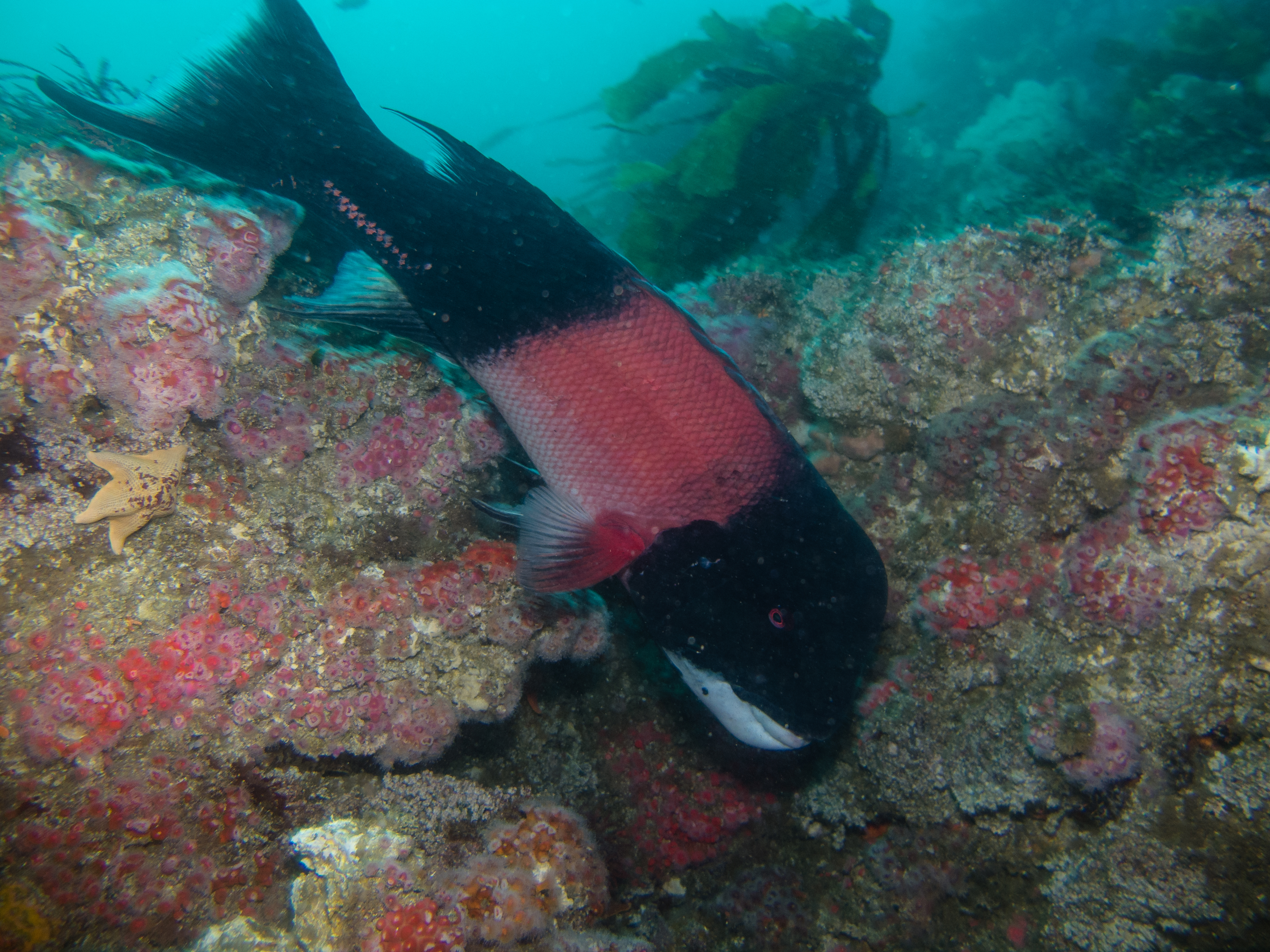 Sheephead